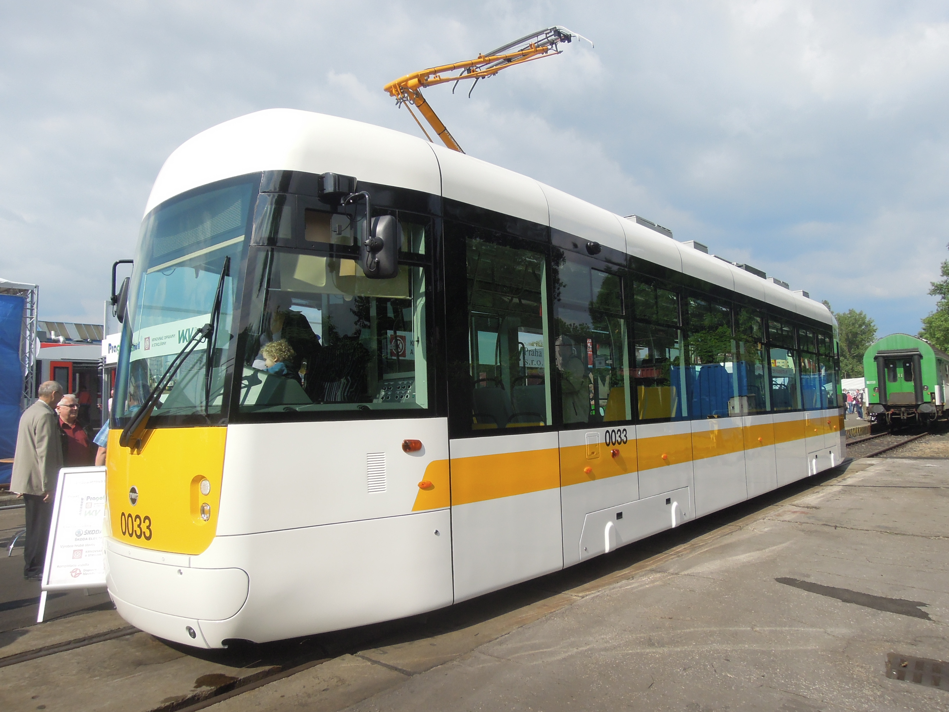 EVO1 tram at the Czech Raildays 2015 trade fair in Ostrava, Czech Republic